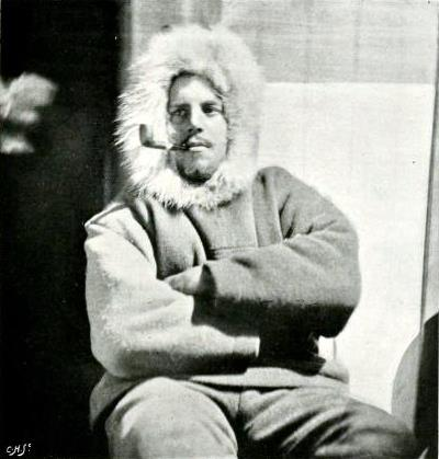 Sigurd Scott-Hansen (1868–1937), member of the first Fram-Expedition